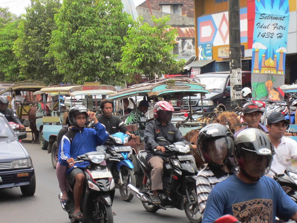 motorcycles, cars, and horse carts clog the main streets of Ampenan, Lombok